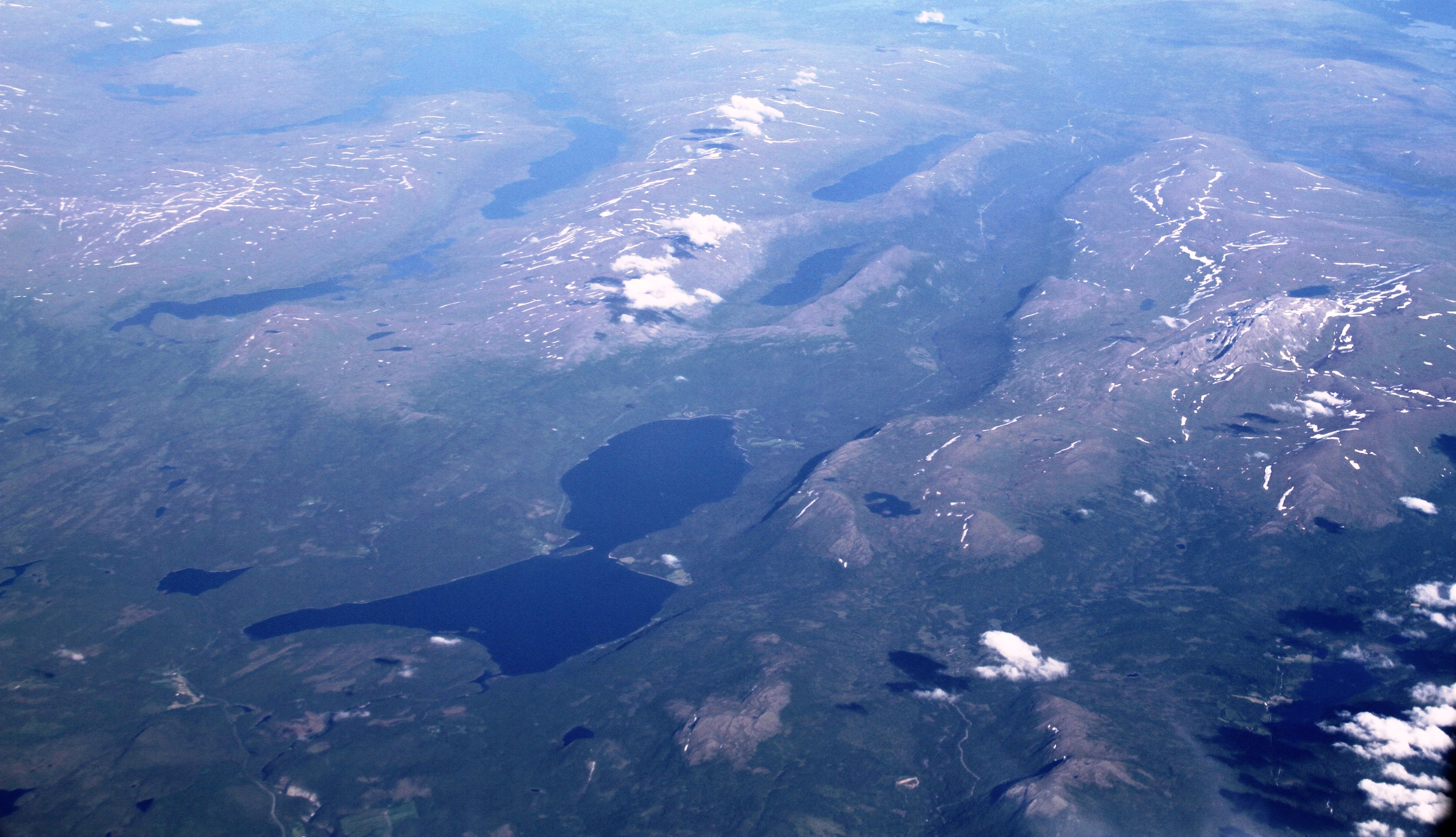 Aerial view from the west towards east, over eastern Hattfjelldal municipality and Sweden in the distant back.